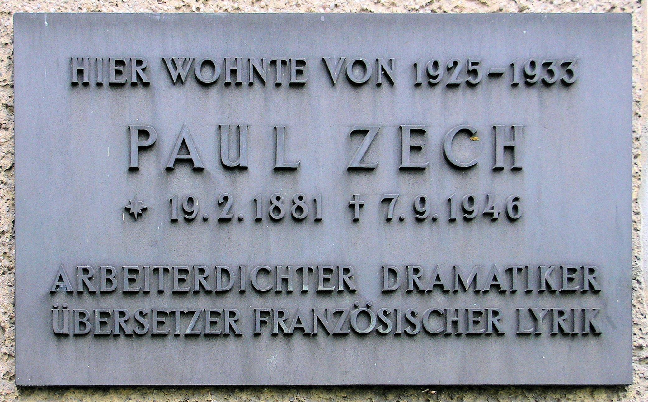 Memorial plaque, Paul Zech, Naumannstraße 78, Berlin-Schöneberg, Germany Koordinate:52°28′45″N 13°21′48″E / 52.47917°N 13.36333°E